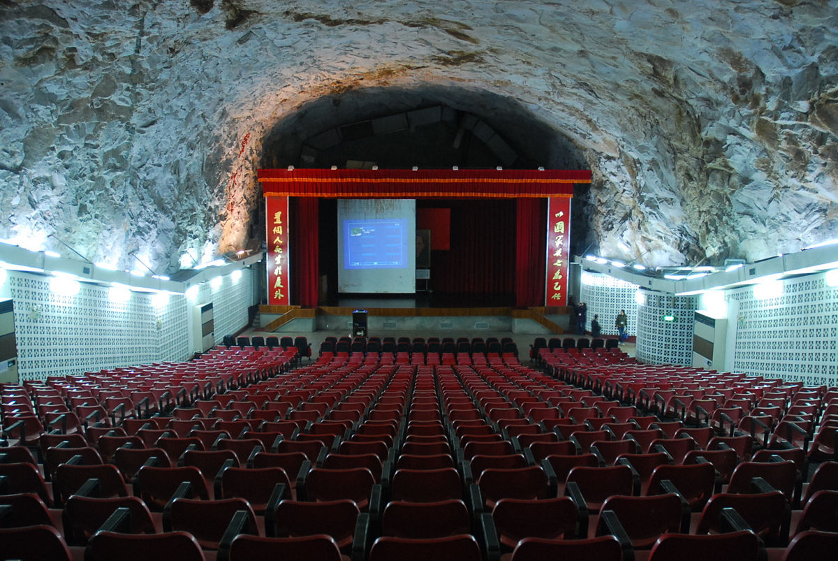 The front of Ch'ing-t'ien Hall in Kinmen, Fujian, Republic of China (Taiwan)